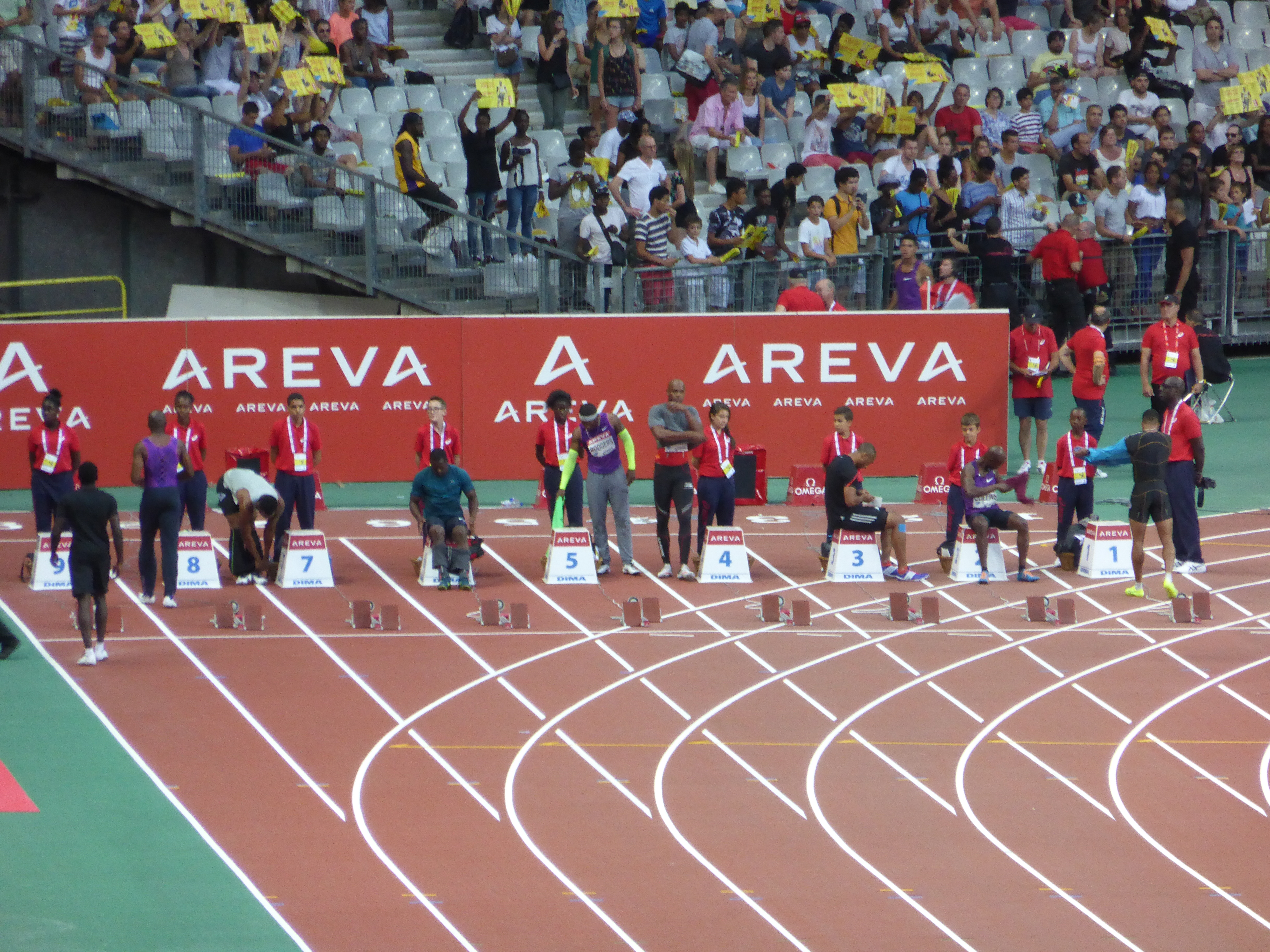 2015 Meeting Areva, Stade de France, Paris.